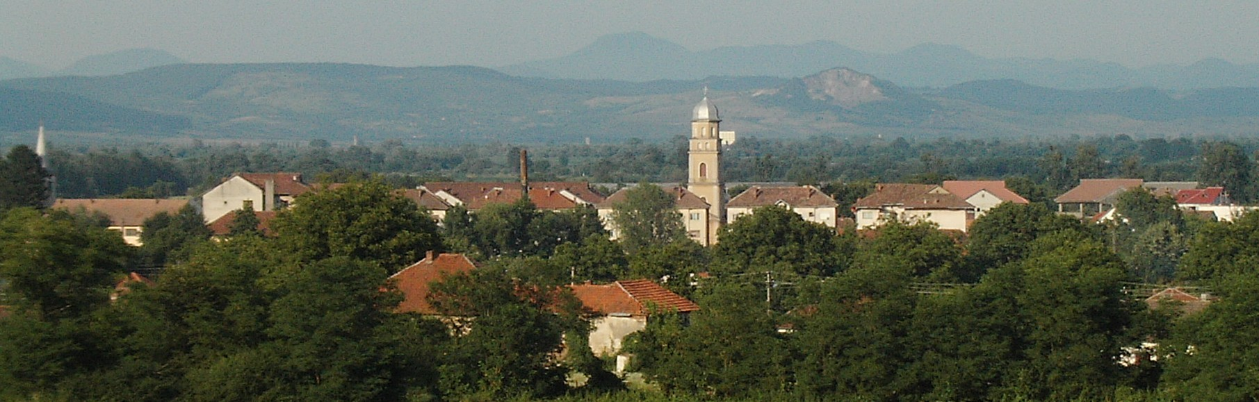 Dobra village, Hunedoara county, Romania